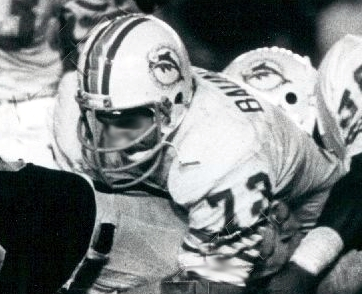 Miami Dolphins defensive tackle Bob Baumhower tackling Oakland Raiders running back Mark van Eeghen during an October 8, 1979 game at Oakland–Alameda County Coliseum.